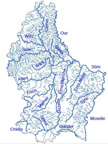 Map of rivers of Luxembourg with the main rivers in bold.